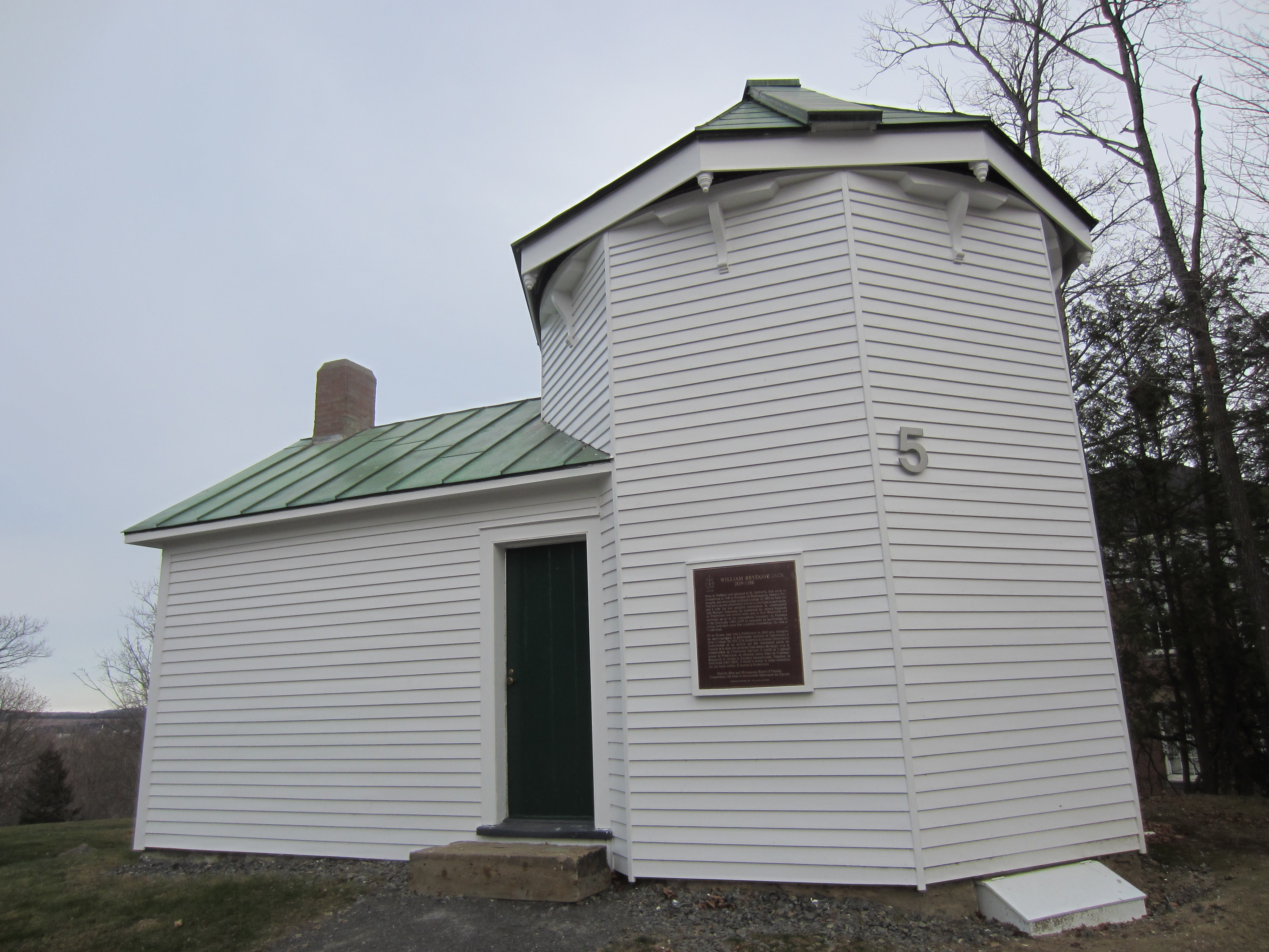 William Brydone Jack Observatory on University of New Brunswick campus